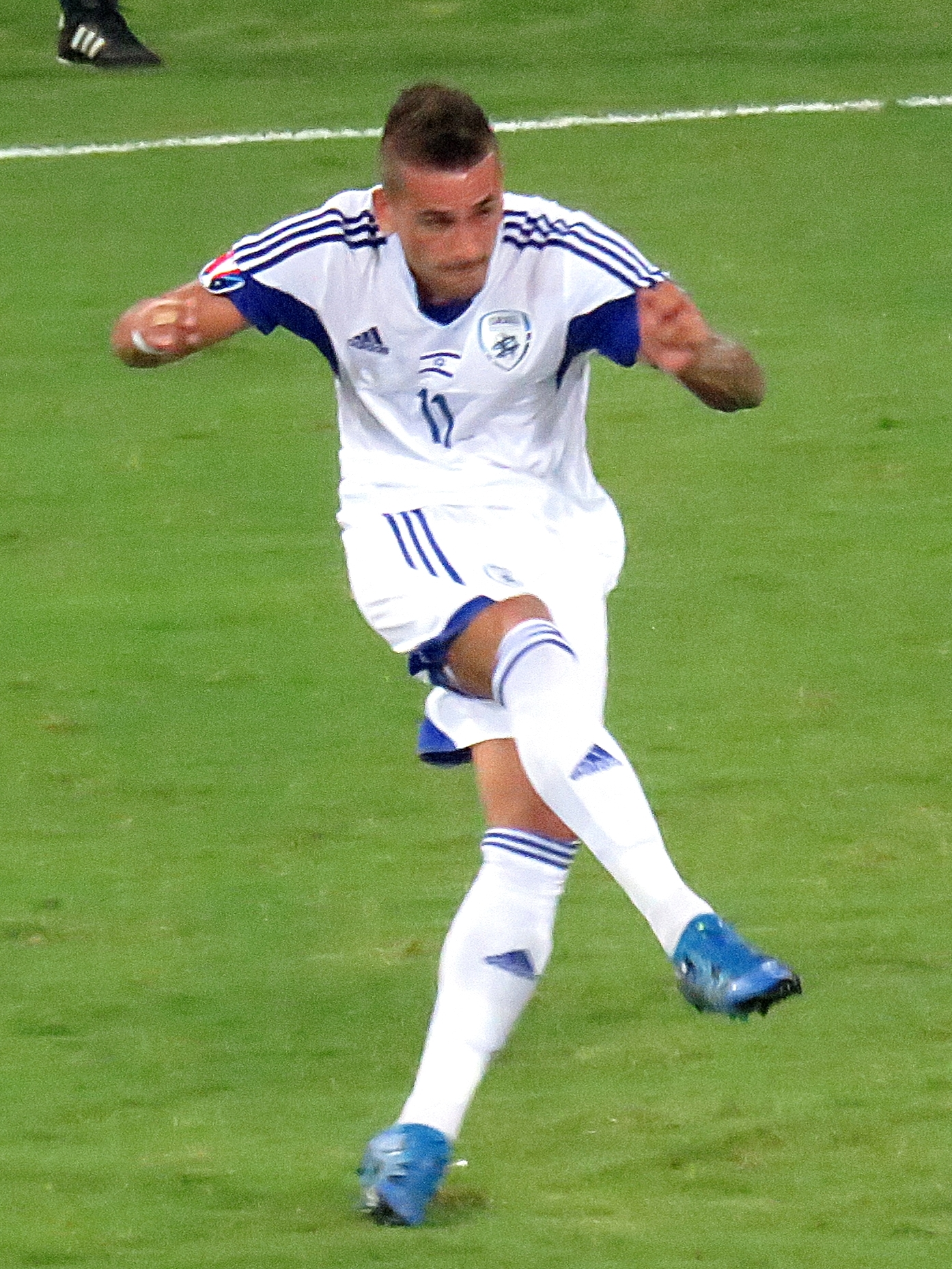 Israel vs. Andorra - September 3, 2015